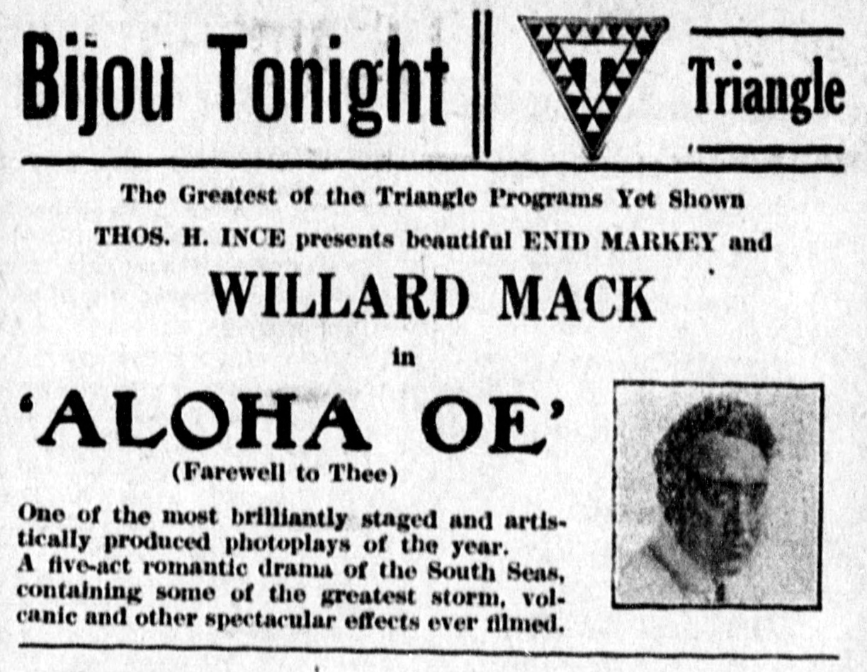 Aloha Oe is a 1915 silent film drama produced by Thomas Ince and released by the Triangle Film Corporation. This is a 1916 newspaper advert for the film.